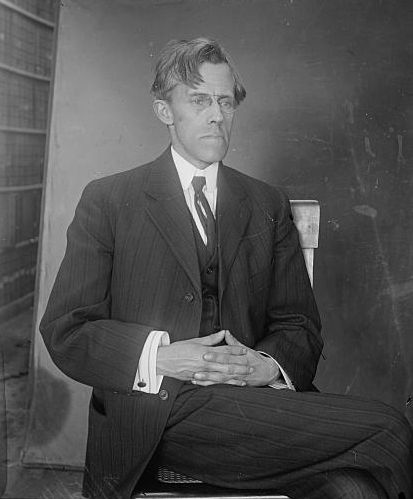 Charles Battell Loomis (1861-1911), American author